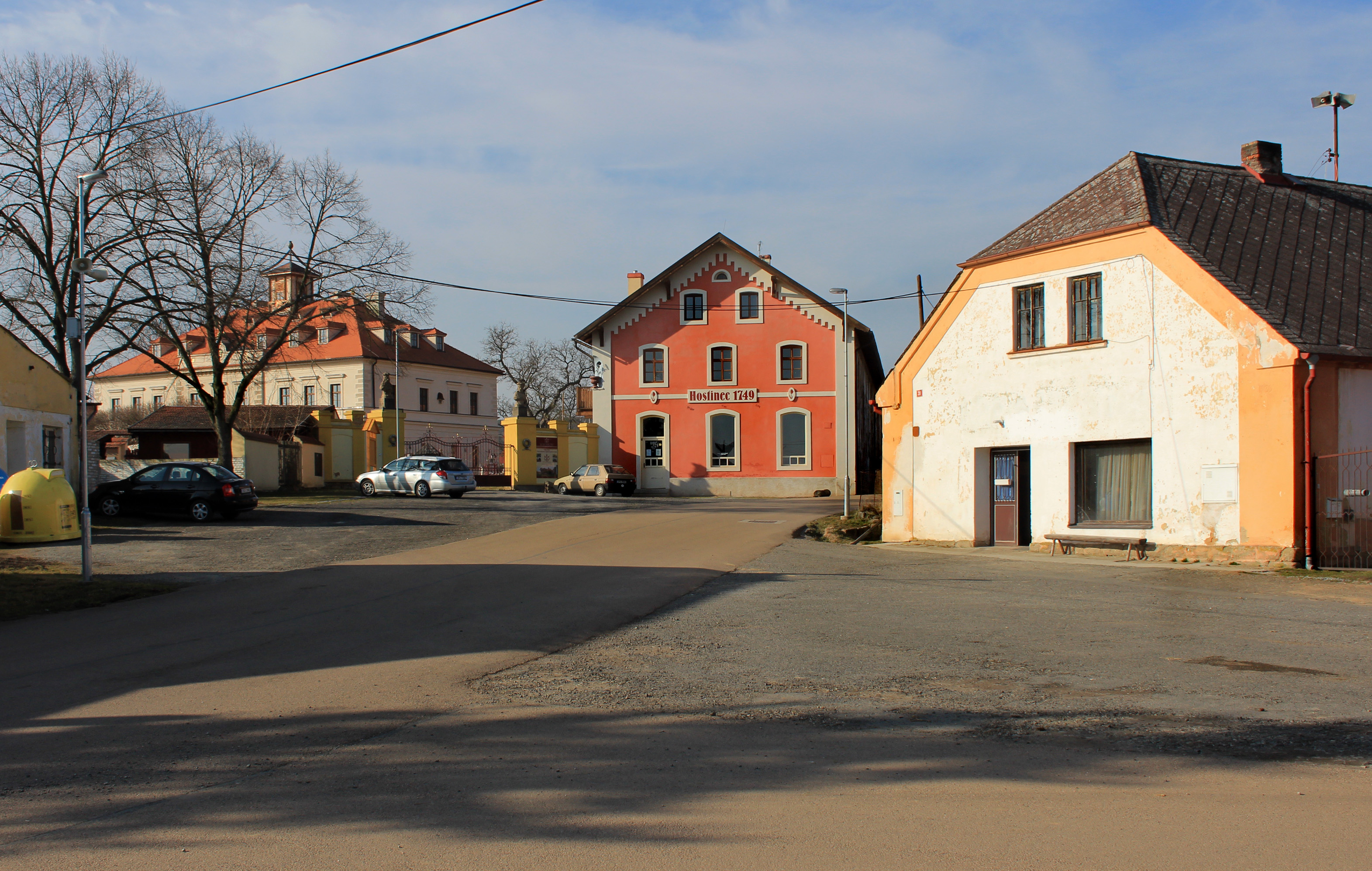 Castle in Rochlov, Czech Republic.